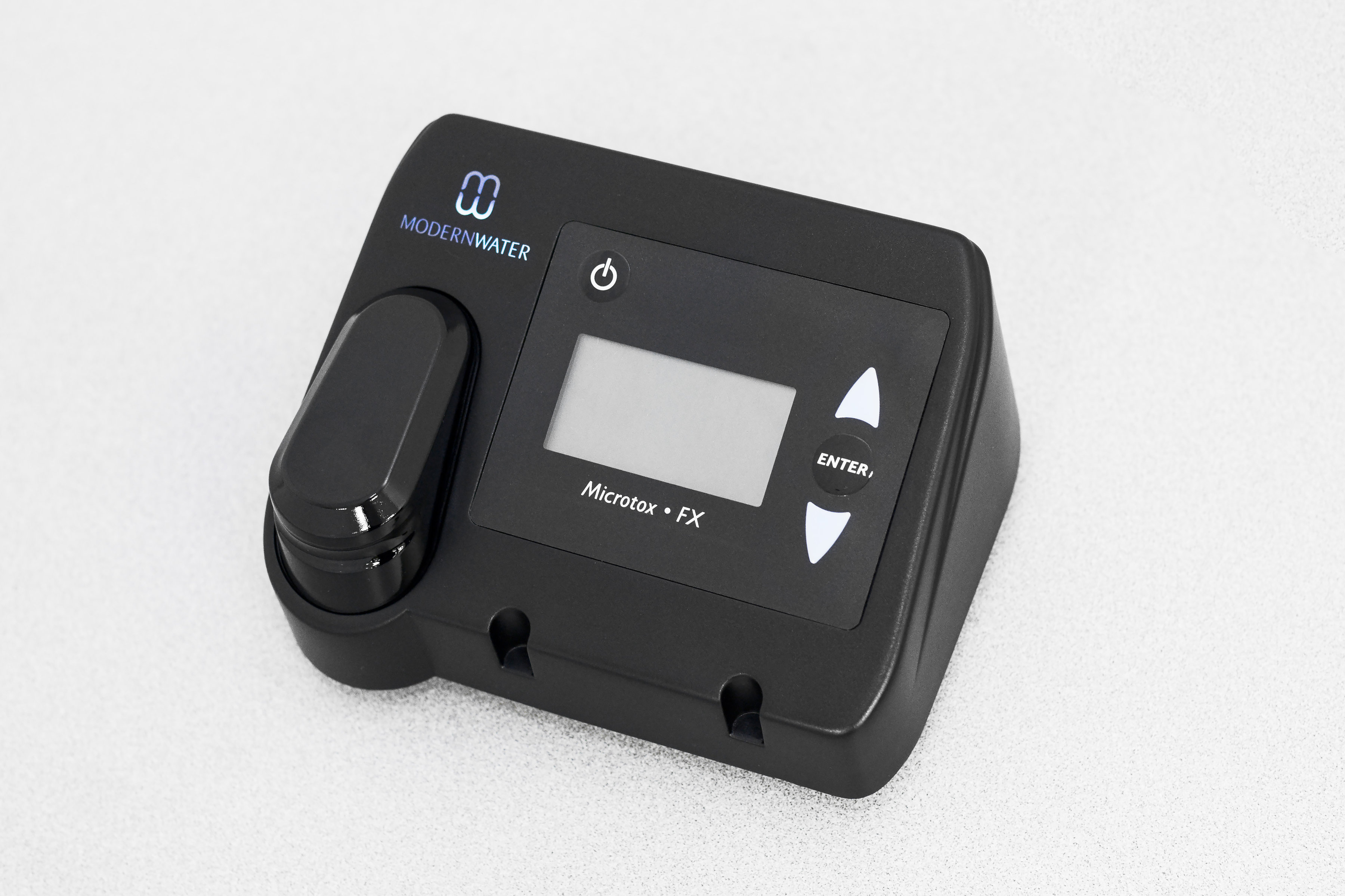 The new Microtox FX is manufactured in a certified ISO 13485 quality system with 100% lot traceability. This unit, which is completely portable, replaces the DeltaTox II analyzer.